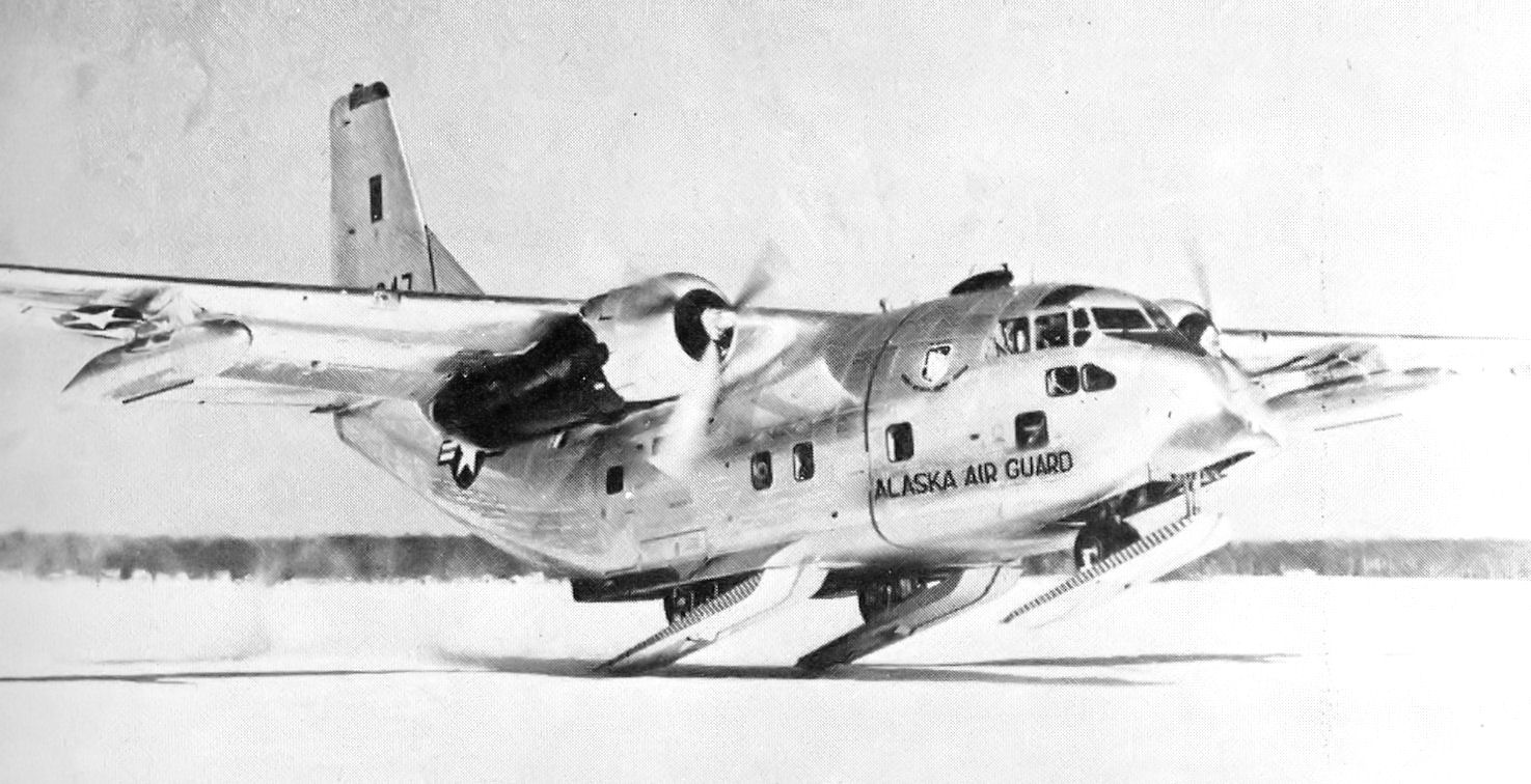 144th Air Transport Squadron - Fairchild C-123J-8-FA Provider 54-647 Crashed while with Alaska ANG at Cape Romanzof AFS, Alaska Dec 15, 1965 when hit just below the top of a mountain. All 5 aboard killed.